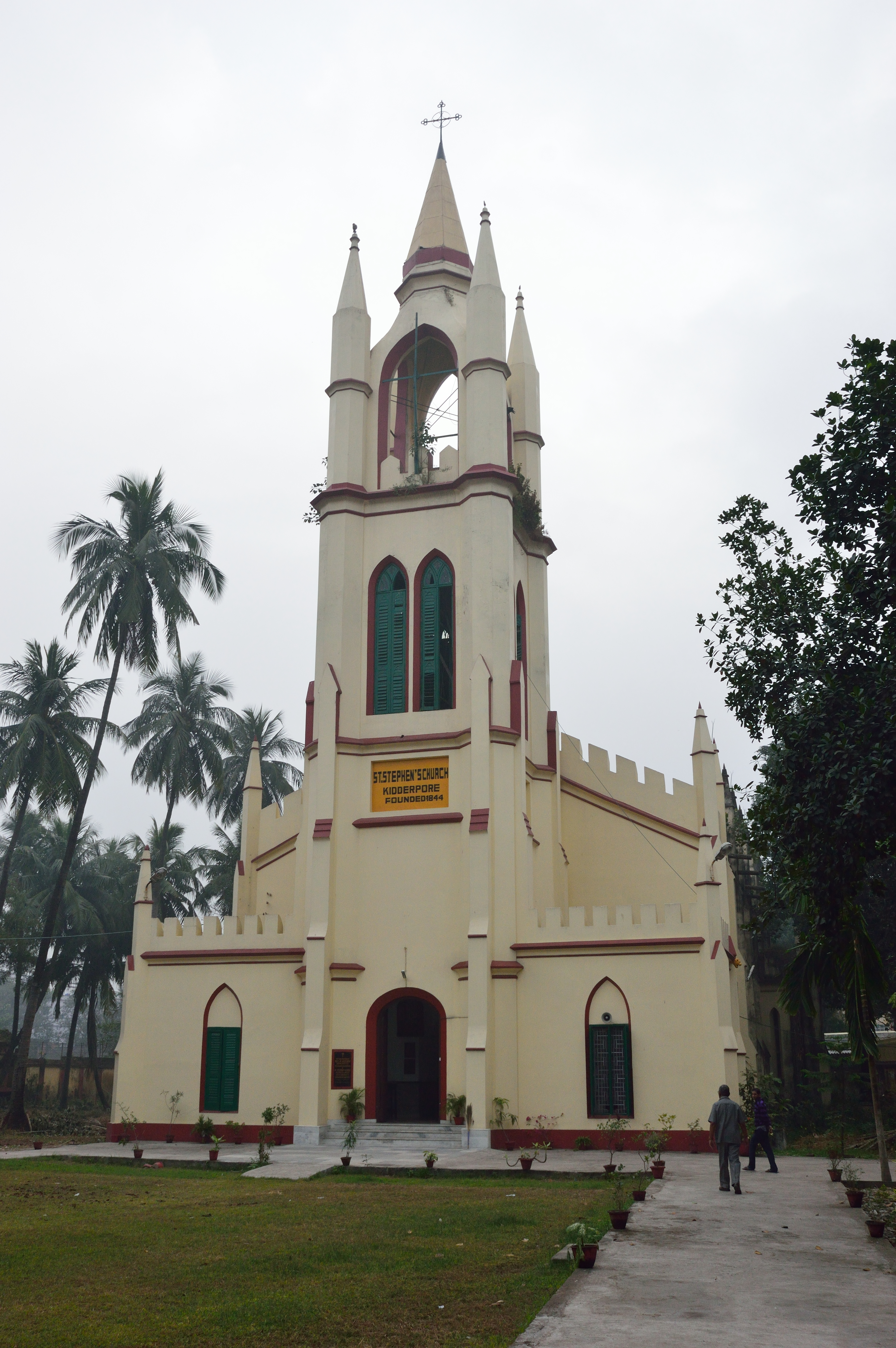 Photographed at the Kidderpore area during the Wikipedia survey/recce for new articles and Photowalk in Kolkata.